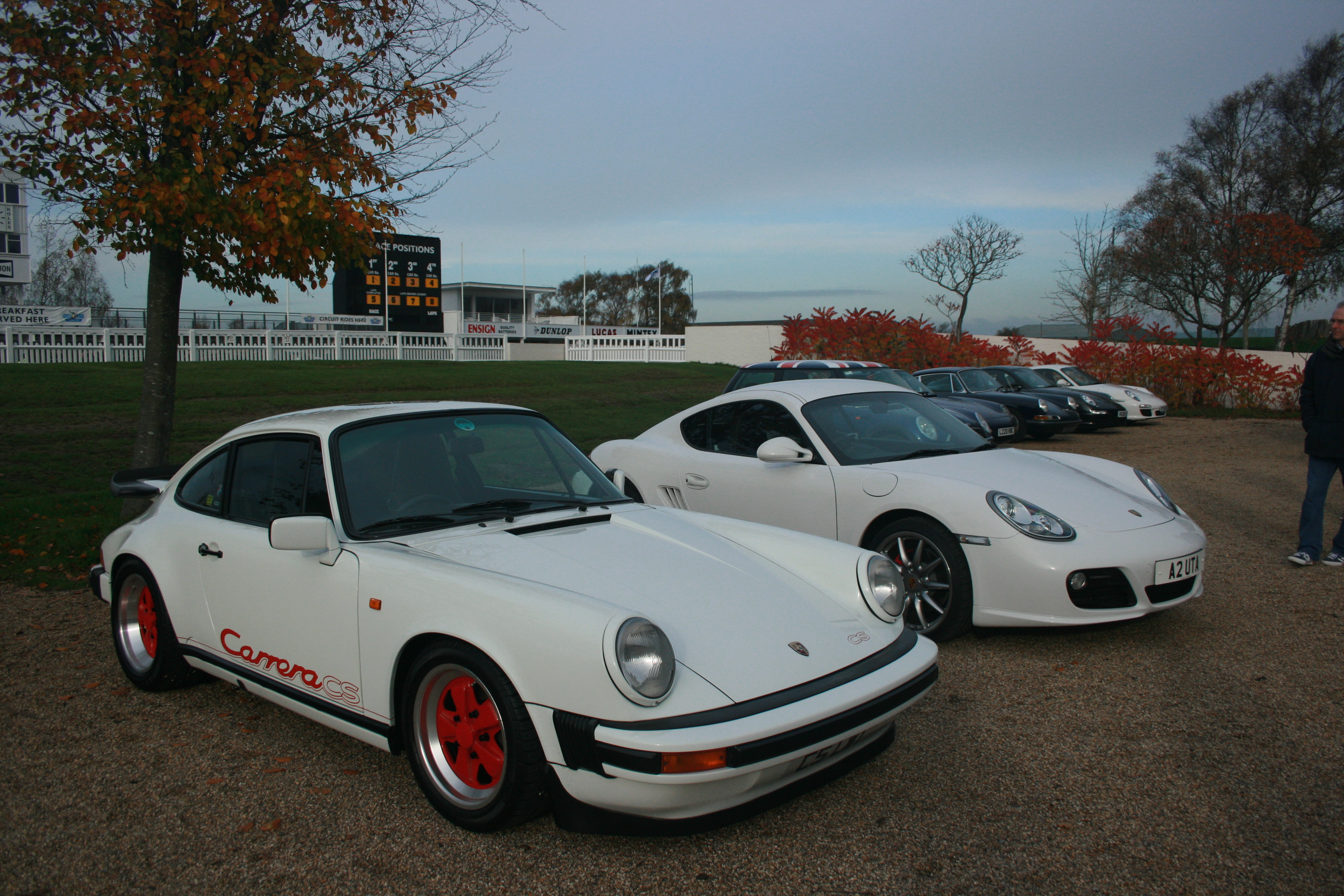 Nice Carrera and Cayman